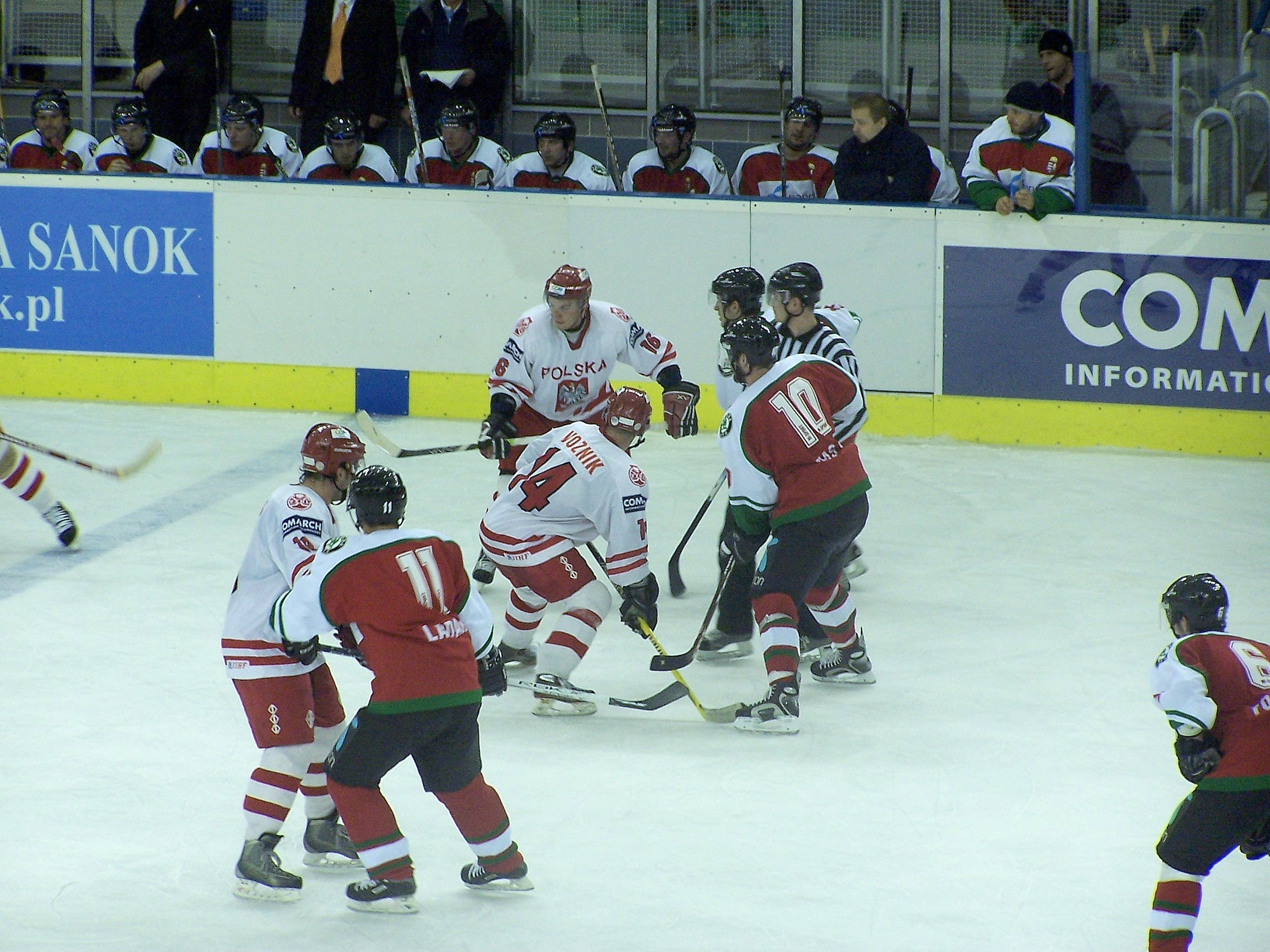 Hungarian national ice hockey team during friendly game Poland vs. Hungary, April 4-th 2006, Arena Sanok.